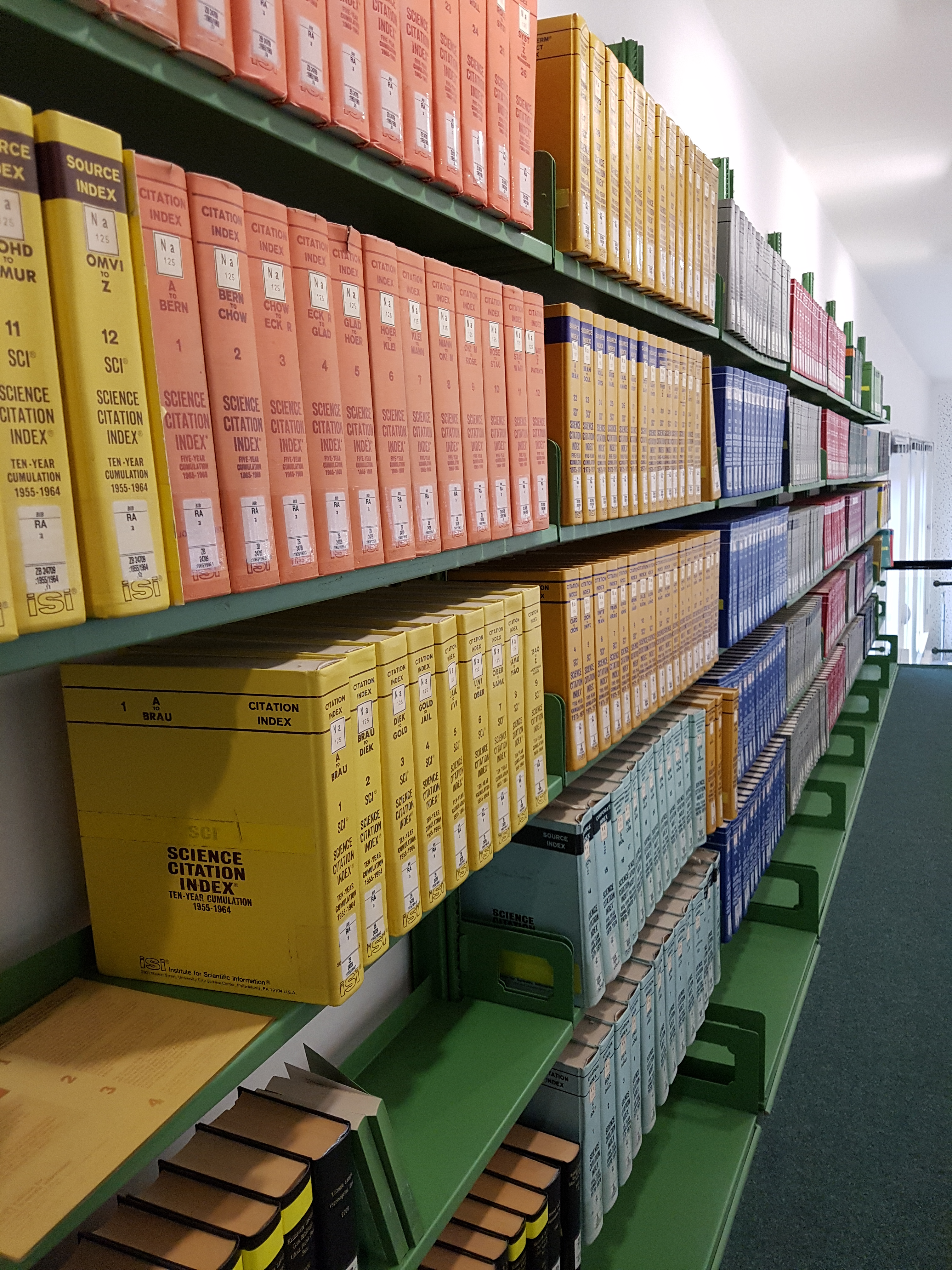 printed citation indexes at Göttingen university library